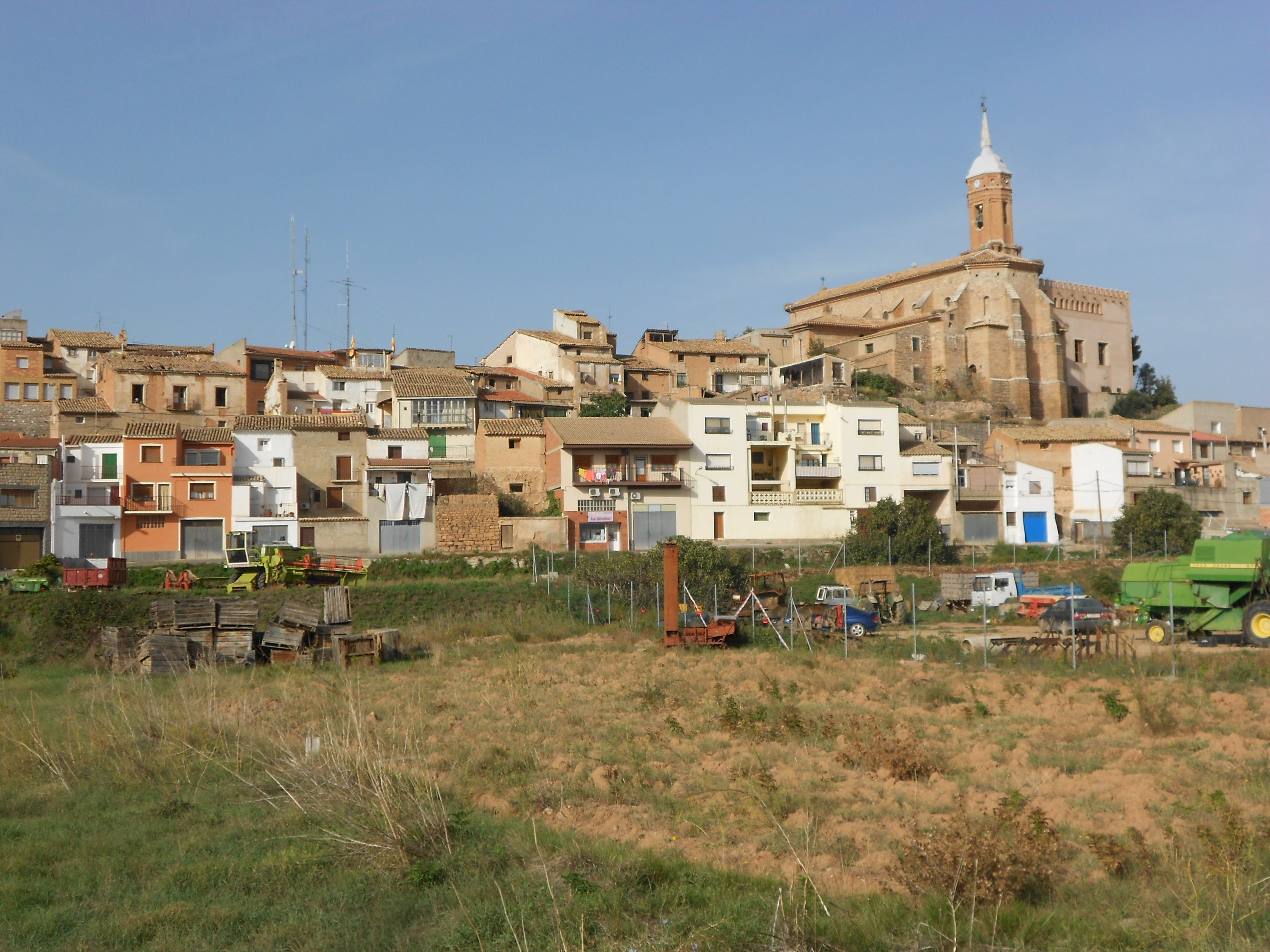 Panoramic view of Calatorao (Aragon, Spain)